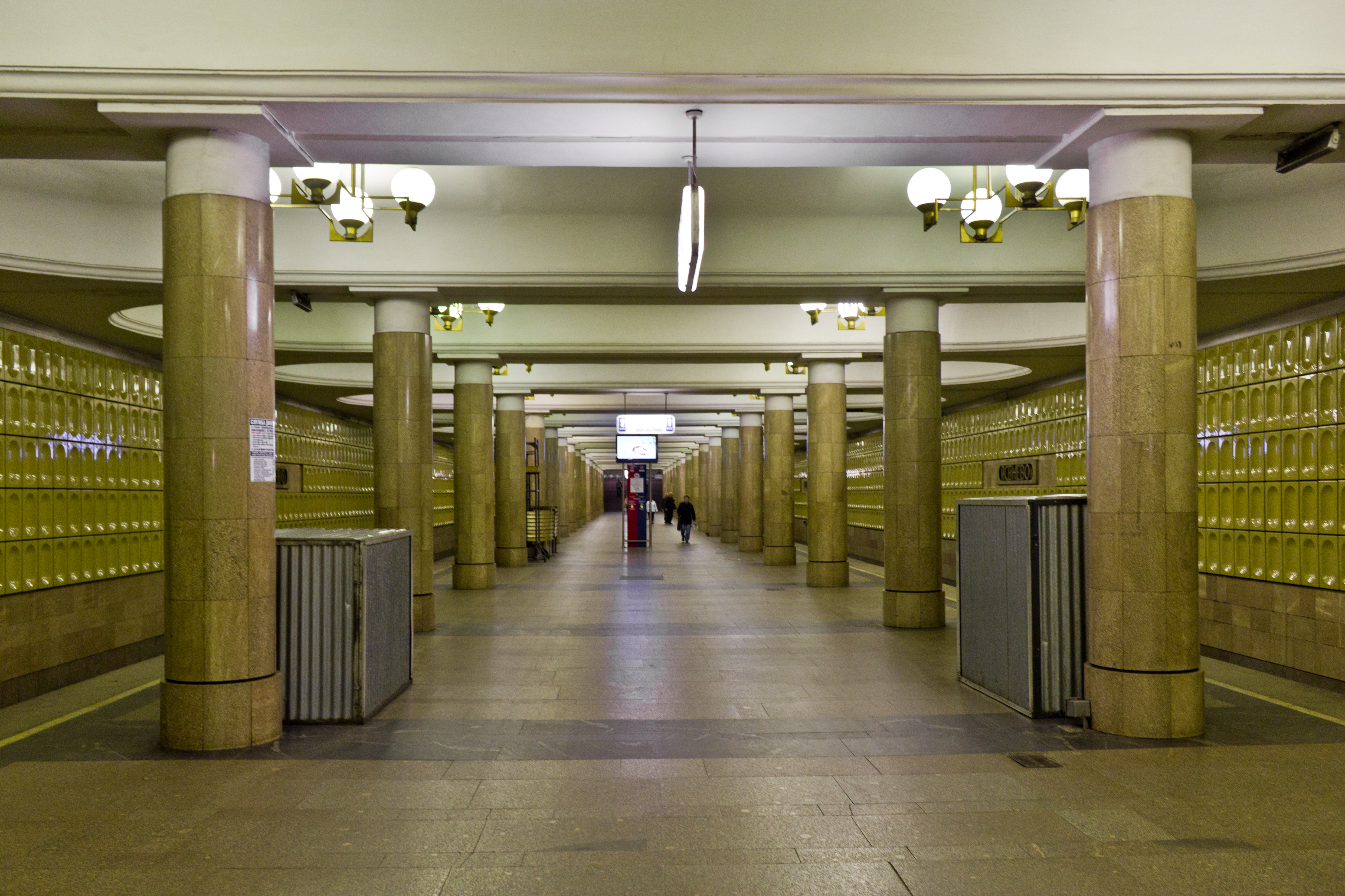 Yasenevo Moscow Metro station.